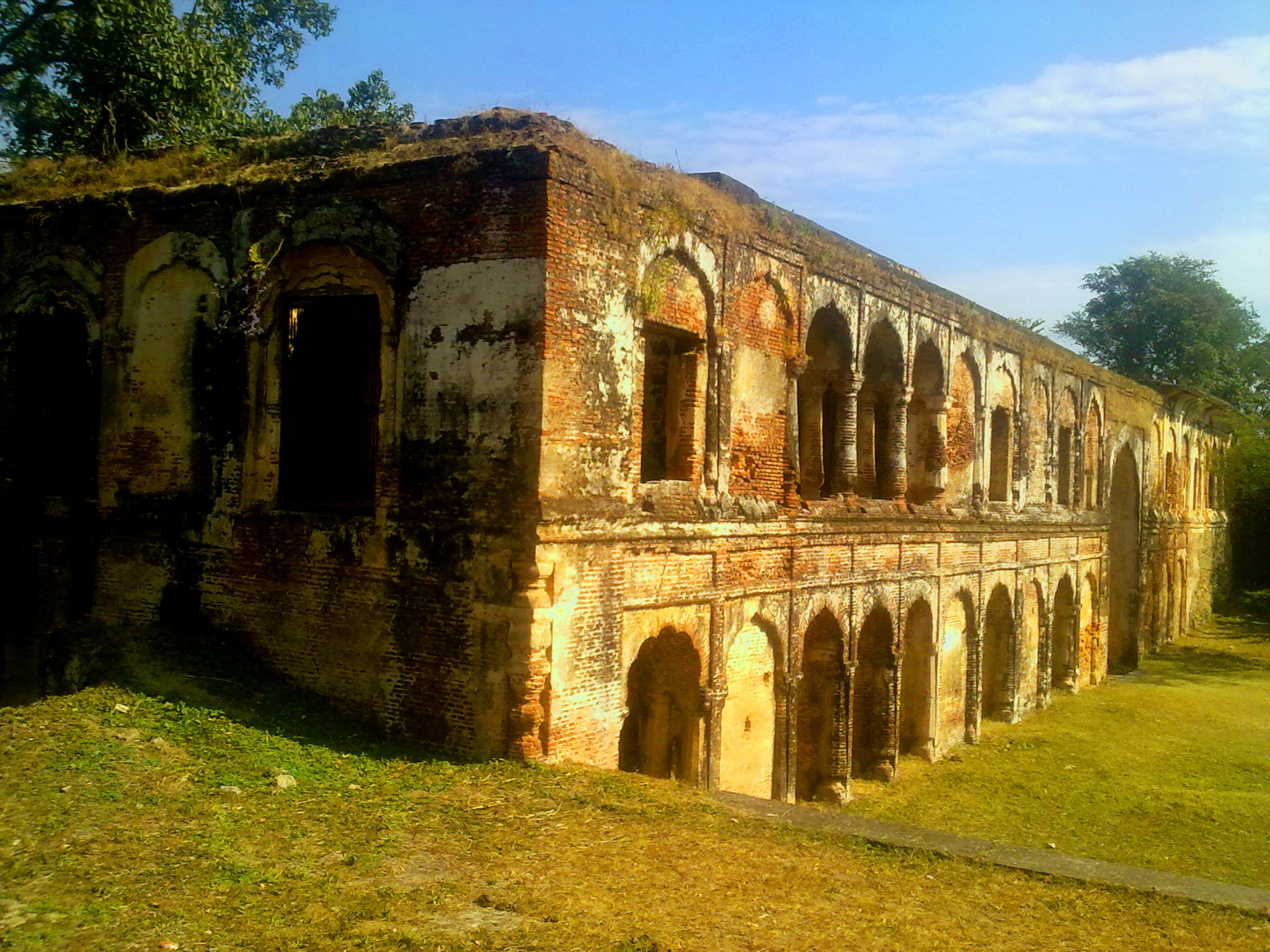 picture photo graphed by me ,sujanpur tihra